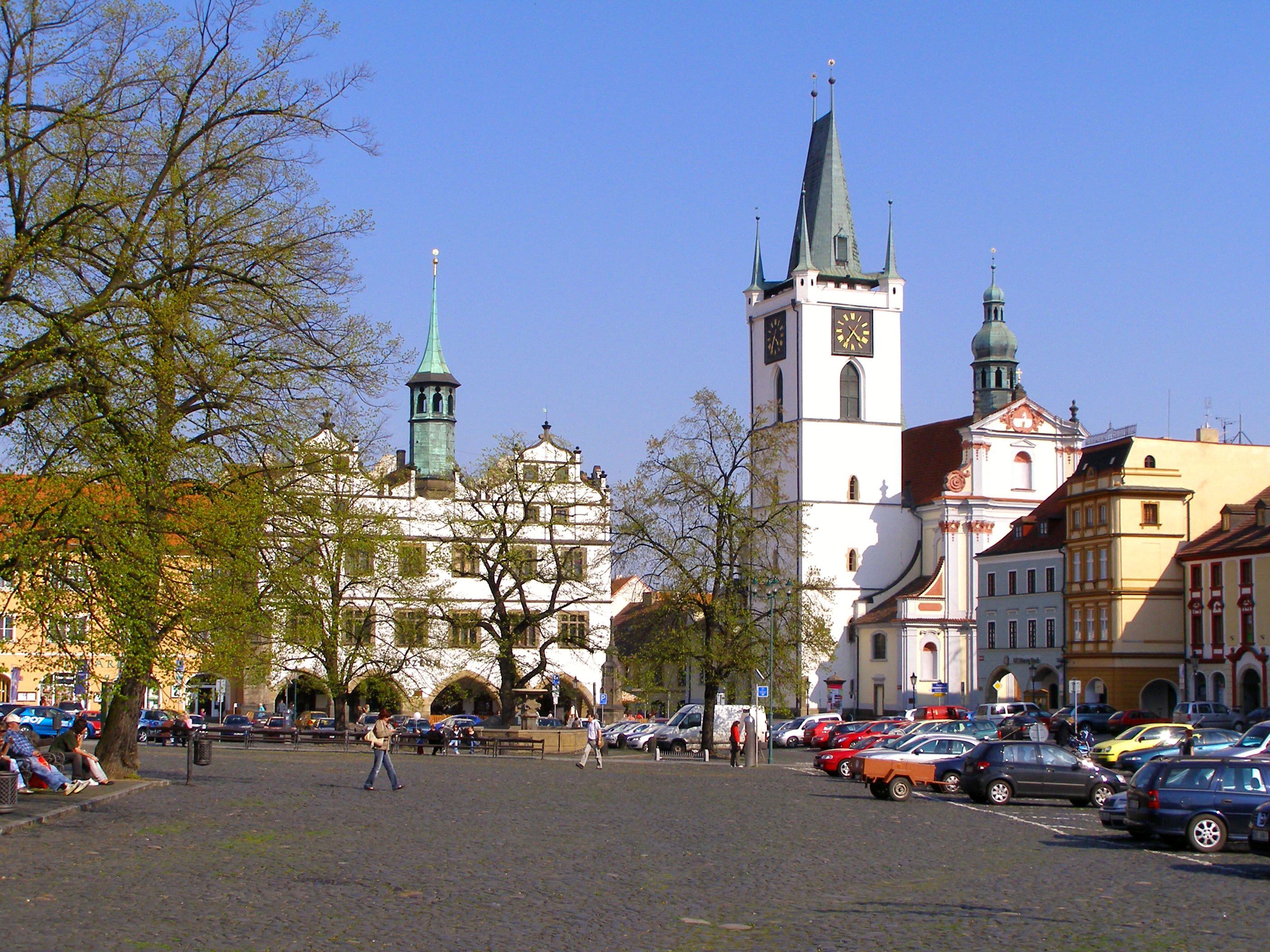 Church "Všech svatých" in Litoměřice